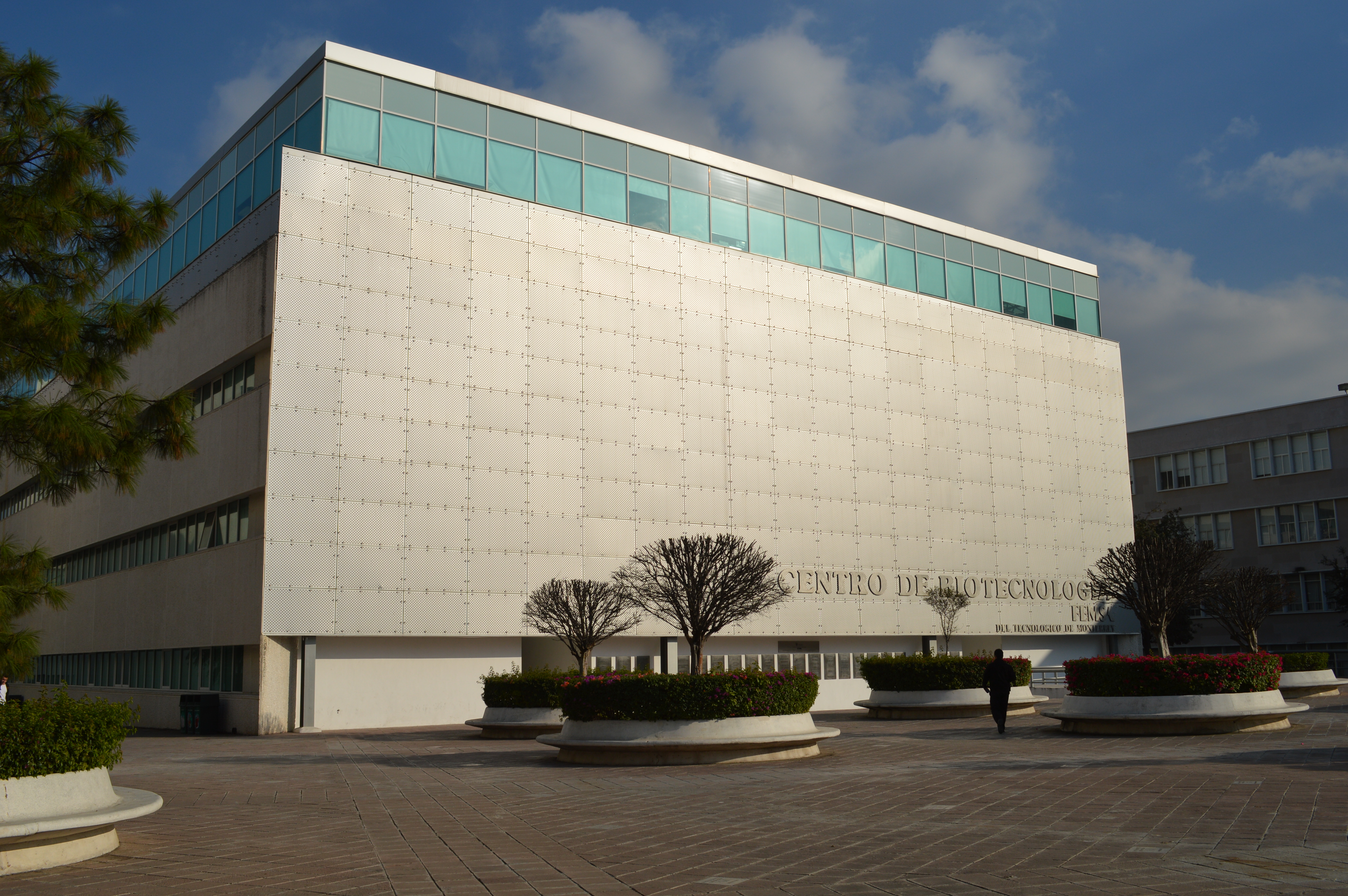 Centro de Biotechnologia at ITESM Campus Monterrey